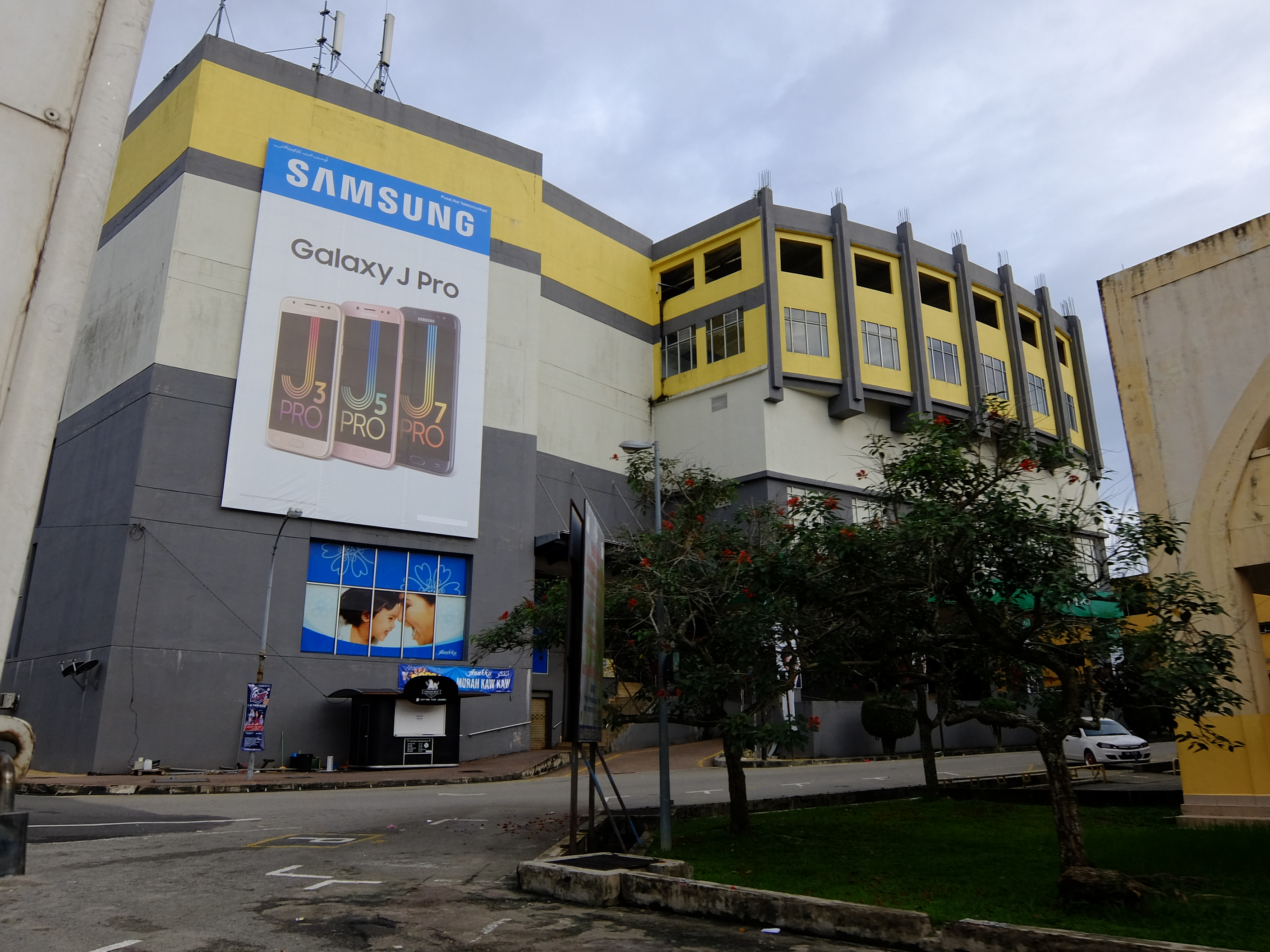 Kemaman Centre Point, Chukai, Kemaman, Terengganu, Malaysia